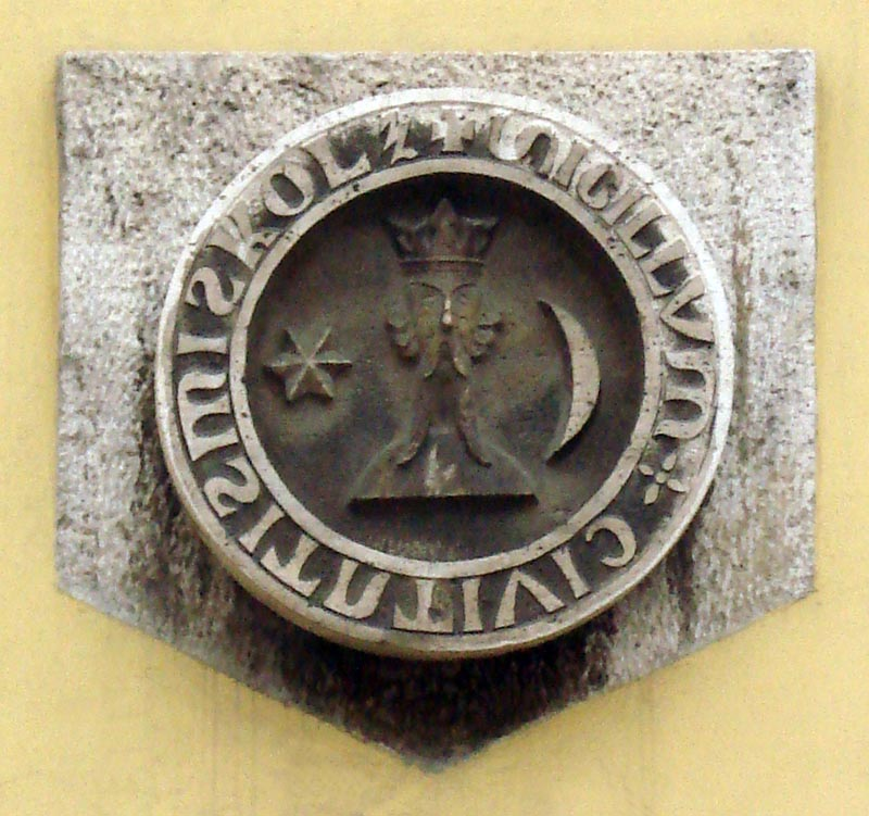 Old CoatOfArms Miskolc, Hungary